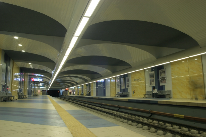 Metrostation Mladost 1